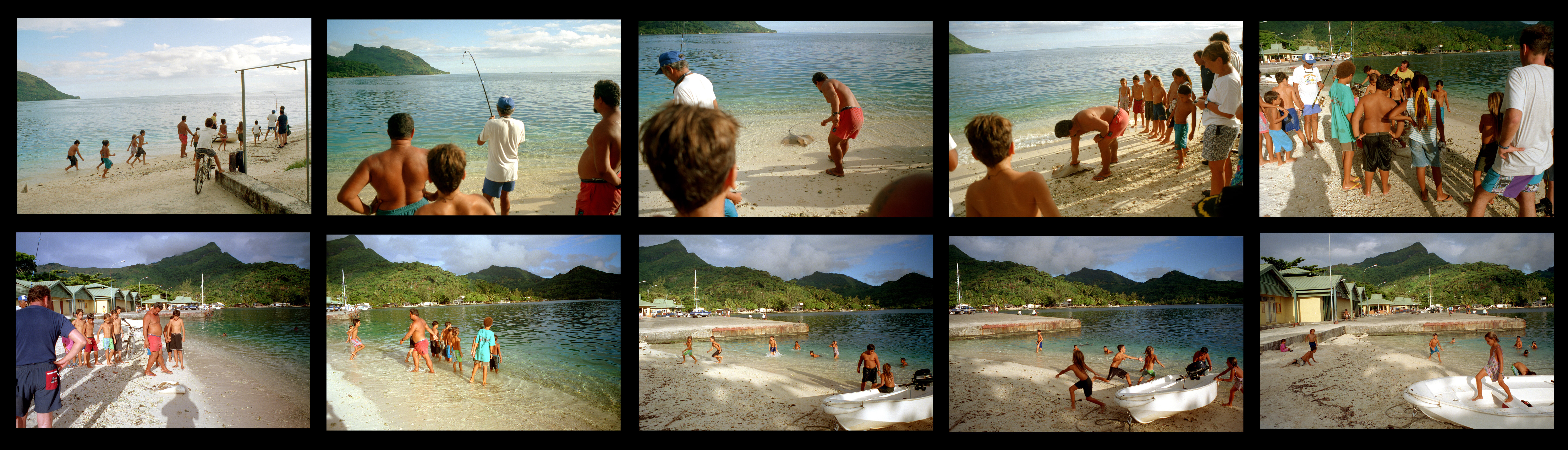 Fare, Huahine, French Polynesia -- After School Play Interrupted by the Catch and Release of a Stingray. Other images by this contributor - User:Sba2 Use this image as needed, but for uses other than personal, please credit as "Photo by Scott Williams".